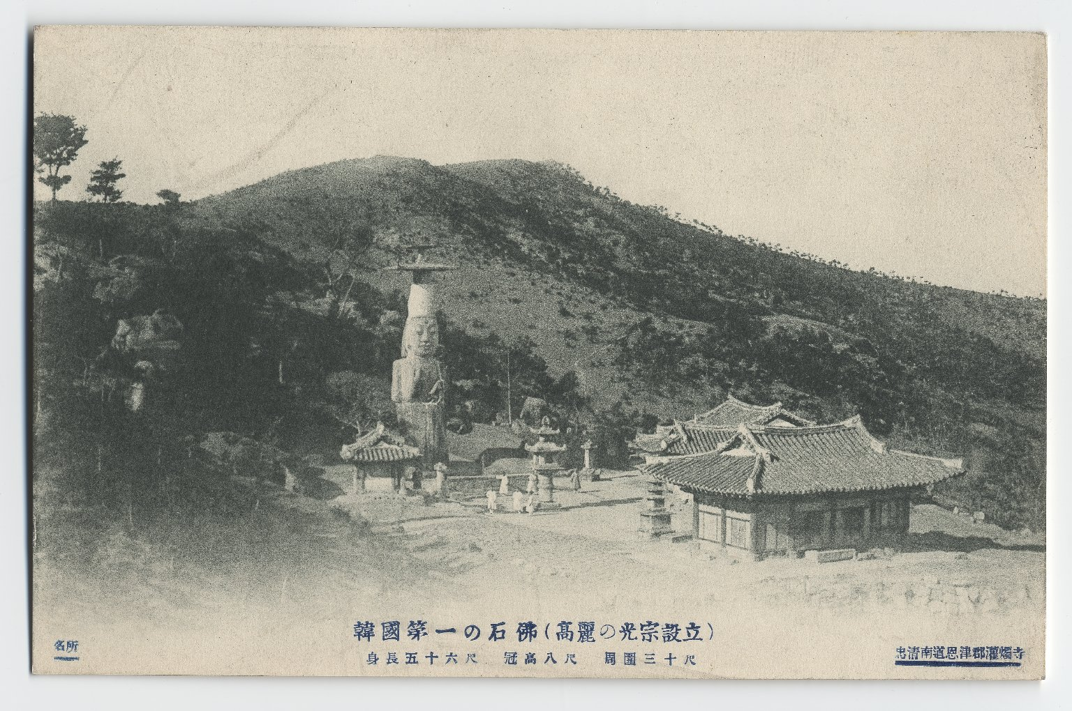 Collection: Willard Dickerman Straight and Early U.S.-Korea Diplomatic Relations, Cornell University Library Title: White Buddha between here and Peng Yang Date: ca. 1904 Place: Asia: South Korea; Nonsan Type: Postcards/Ephemera Description: A stone statue of Maitreya (Sanskrit term meaning the Merciful) Bodhisattva, located at the center of 'Gwanchoksa' Temple, and called 'Eunjin Miruk'. The Korean word Miruk signifies the Sanskrit word for Maitreya. Its height is 18.2 m, making it the largest Buddhist stone carving in Korea. It was erected in 967 AD under the rule of the 4th king Kwangjong of the Koryo dynasty and designated as the Korean national treasure #218. Kwanchoksa Temple is located in the city of Nonsan, around 120 miles southeast of Seoul, and serves as a major tourist attraction to this day. Inscription/Marks: Image imprinted with legend in Japanese characters: Pencilled inscription on verso: 'White Buddha between here & Pengyang.' Identifier: 1260.74.08.01 Persistent URI: There are no known U.S. copyright restrictions on this image. The digital file is owned by the Cornell University Library which is making it freely available with the request that, when possible, the Library be credited as its source. We had some help with the geocoding from Web Services by Yahoo!